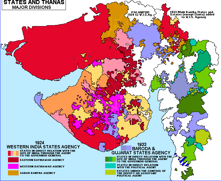 Map of Princely States of Gujarat, major divisions